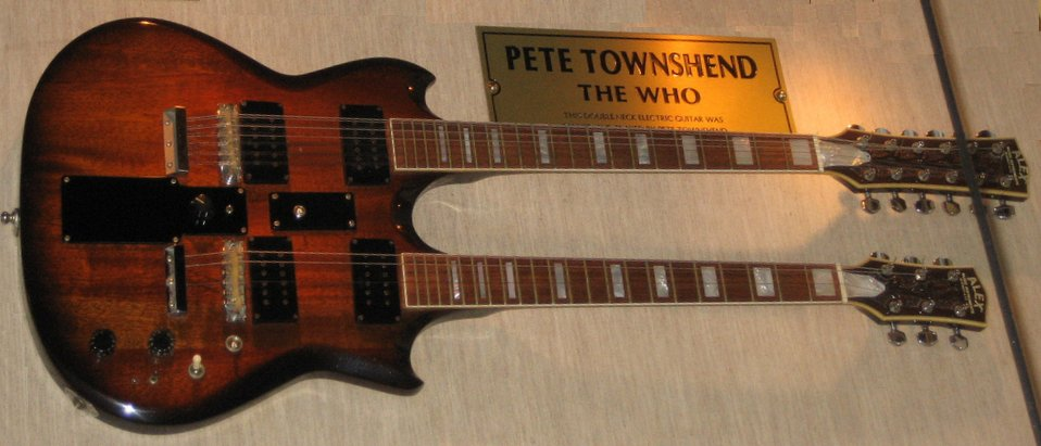 Guitar of Pete Townshend (The Who).